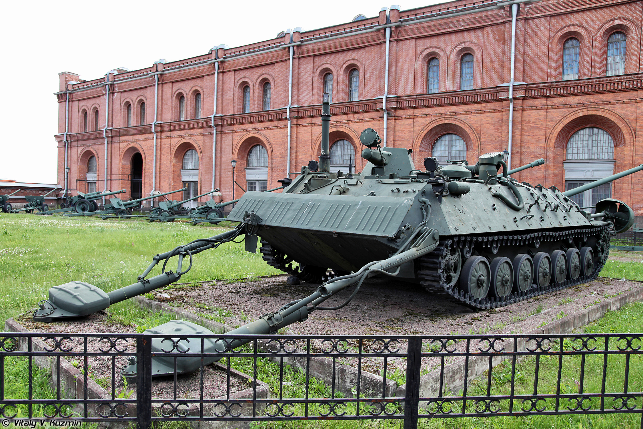 Engineer reconnaissance vehicle IRM